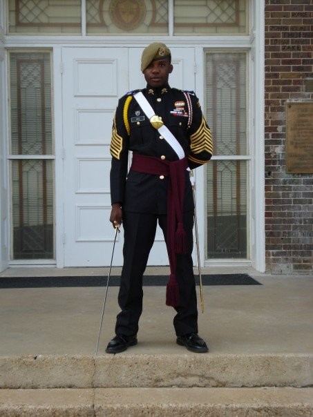 Rodney L. Hall, Jr., Brigade Commander 2007-2008中文（中国大陆）: 罗德尼·L·霍尔，军校生旅长，2007-2008